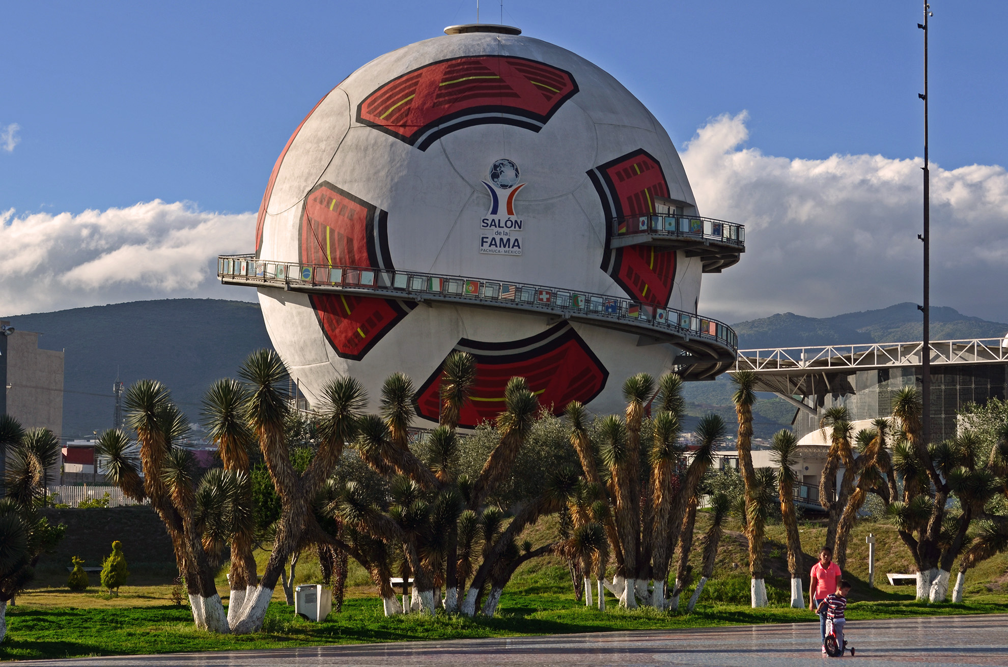 Salón de la Fama del Fútbol (México)